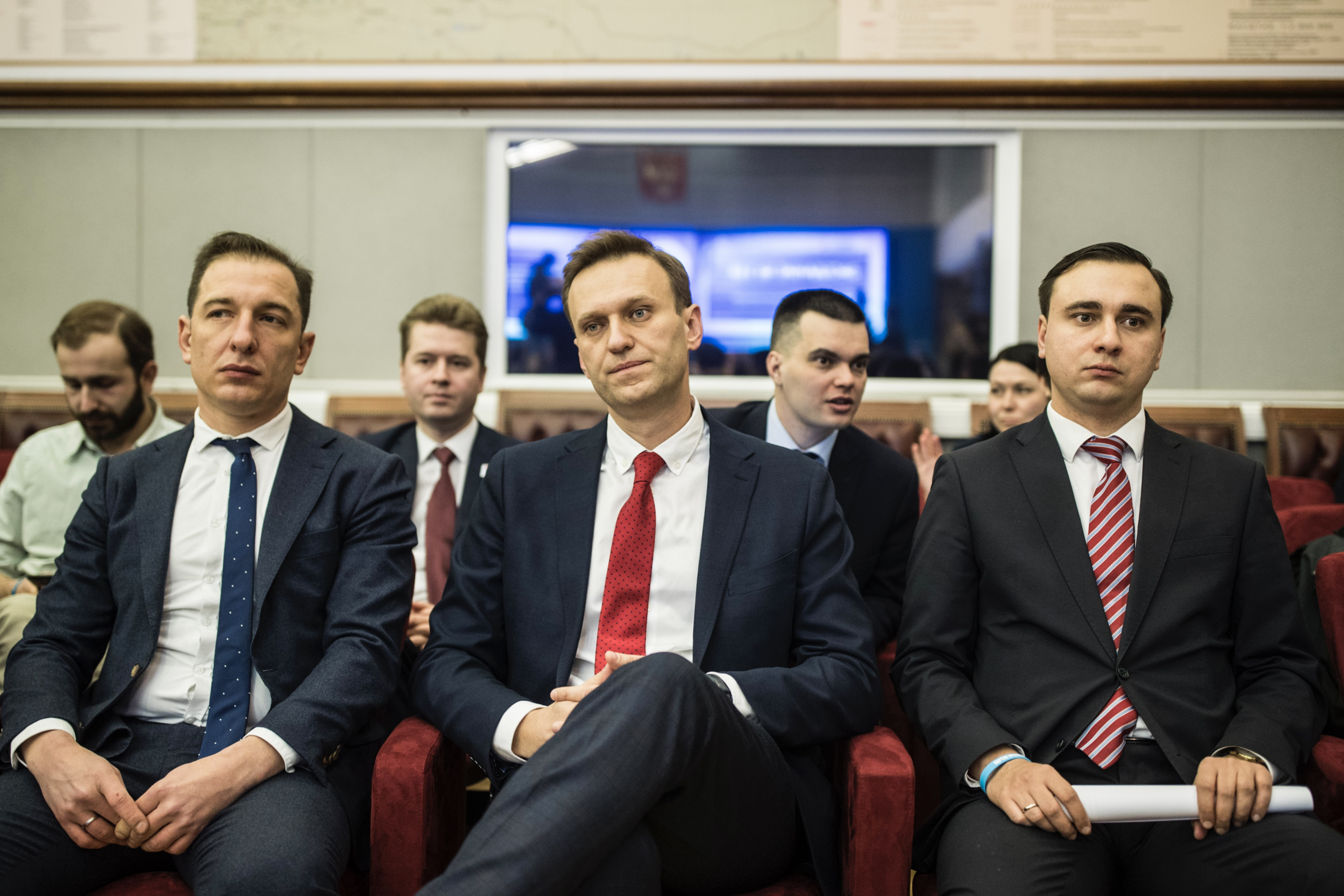 Alexei Navalny, Russian opposition leader, at Central Election Commission's session which is about to deny his right to be in the ballot on the upcoming presidential elections